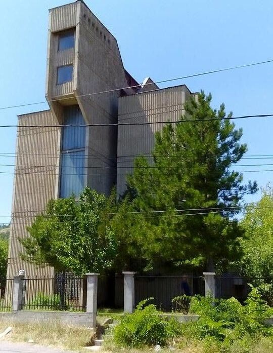 The building of the archives of Shtip, a department of the State Archive of the Republic of Macedonia. This media file is produced by Wikipedian in Residence in Category:Wikipedian in Residence at DARM in 2016.